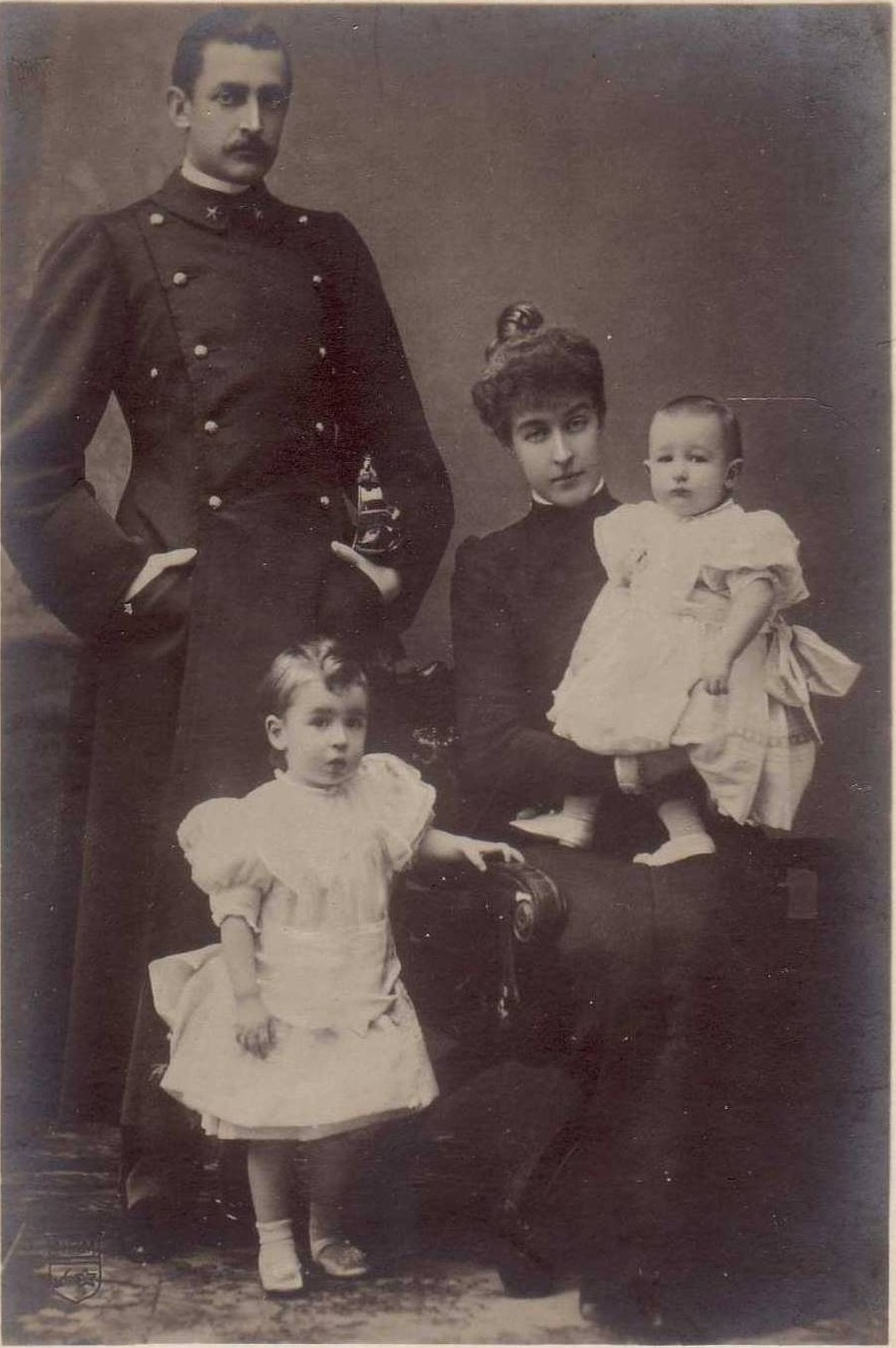 Emanuele Filiberto - Duke of Aosta with his family (wife Hélène and two sons Aimone and Amedeo)